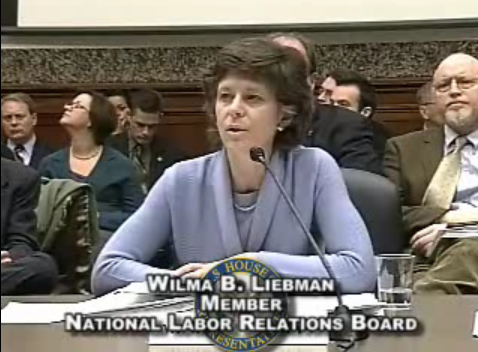 Screenshot of the testimony delivered by Wilma B. Liebman, Member of the National Labor Relations Board (NLRB), at the hearing title "The National Labor Relations Board: Recent Decisions and Their Impact on Workers' Rights", held at 10:00 AM on December 13, 2007, by the U.S. House of Representatives Committee on Education and Labor (